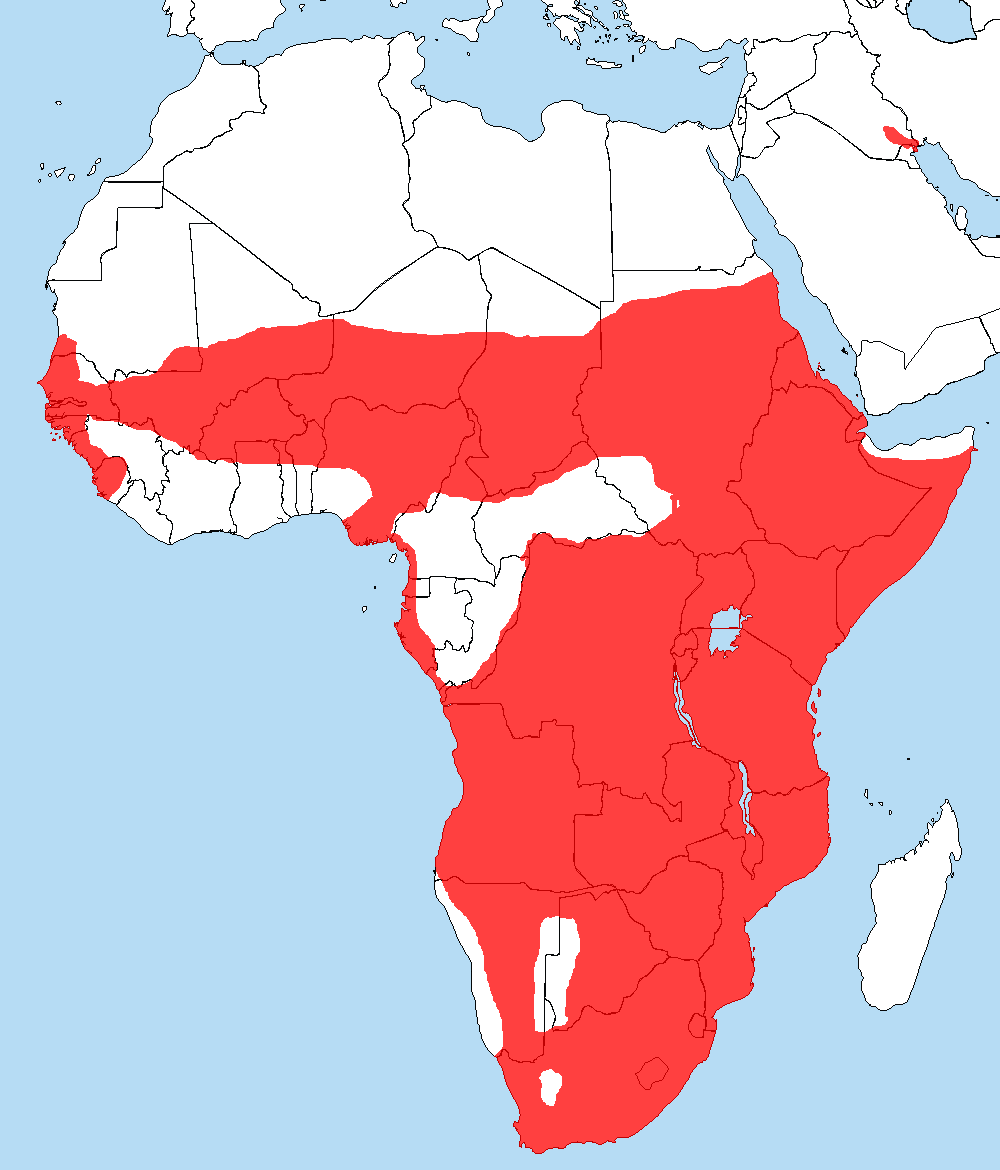 Distribution map of the Sacred Ibis (Threskiornis aethiopicus).